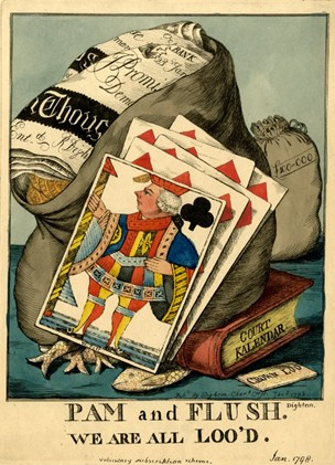 Pam-flush